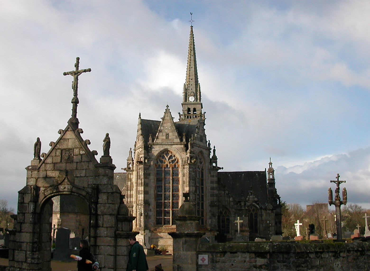 Church of Gouesnou.